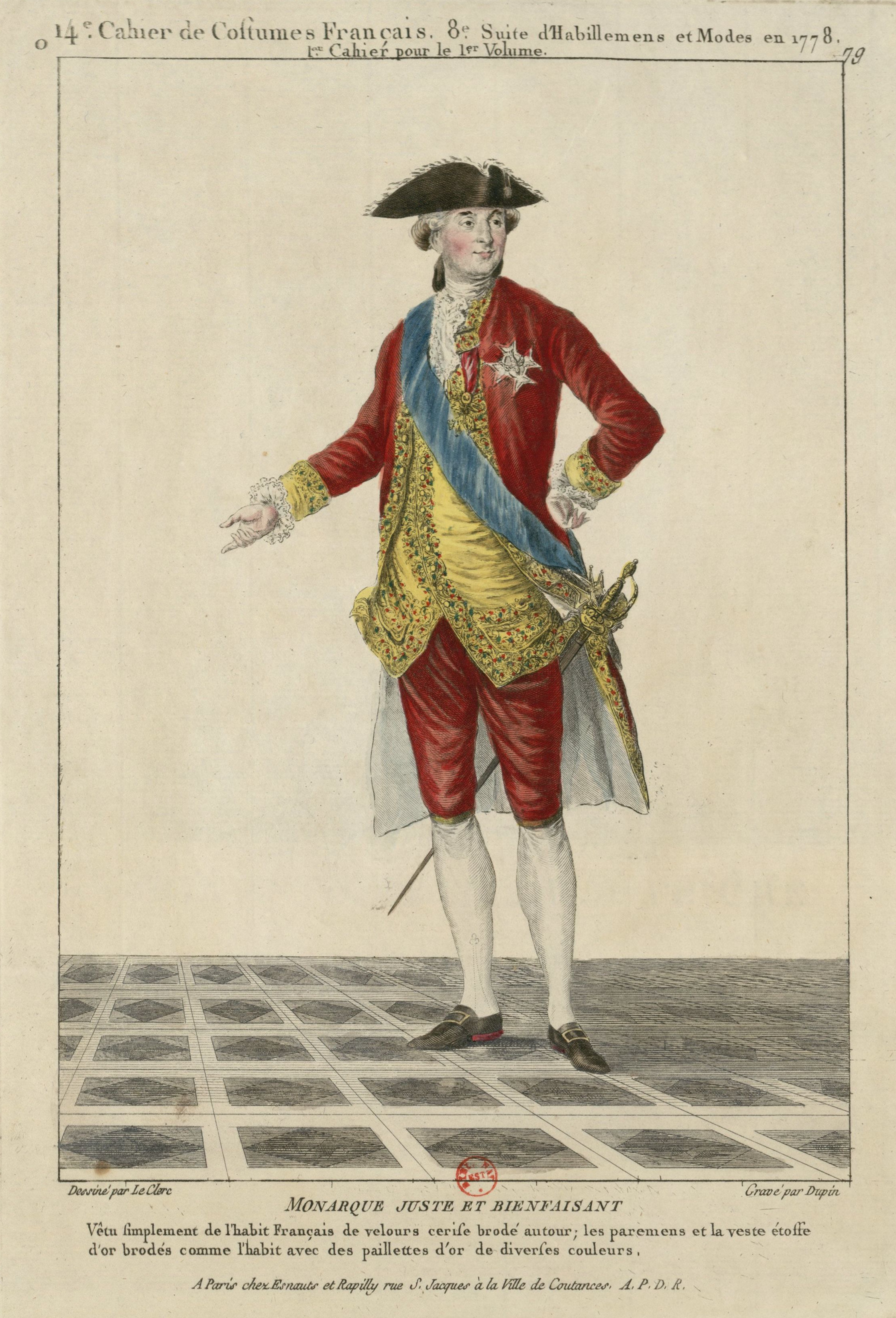 Portrait of Louis XVI of France